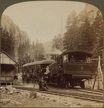 Pike's Peak and Manitou Railway. Cropped version of